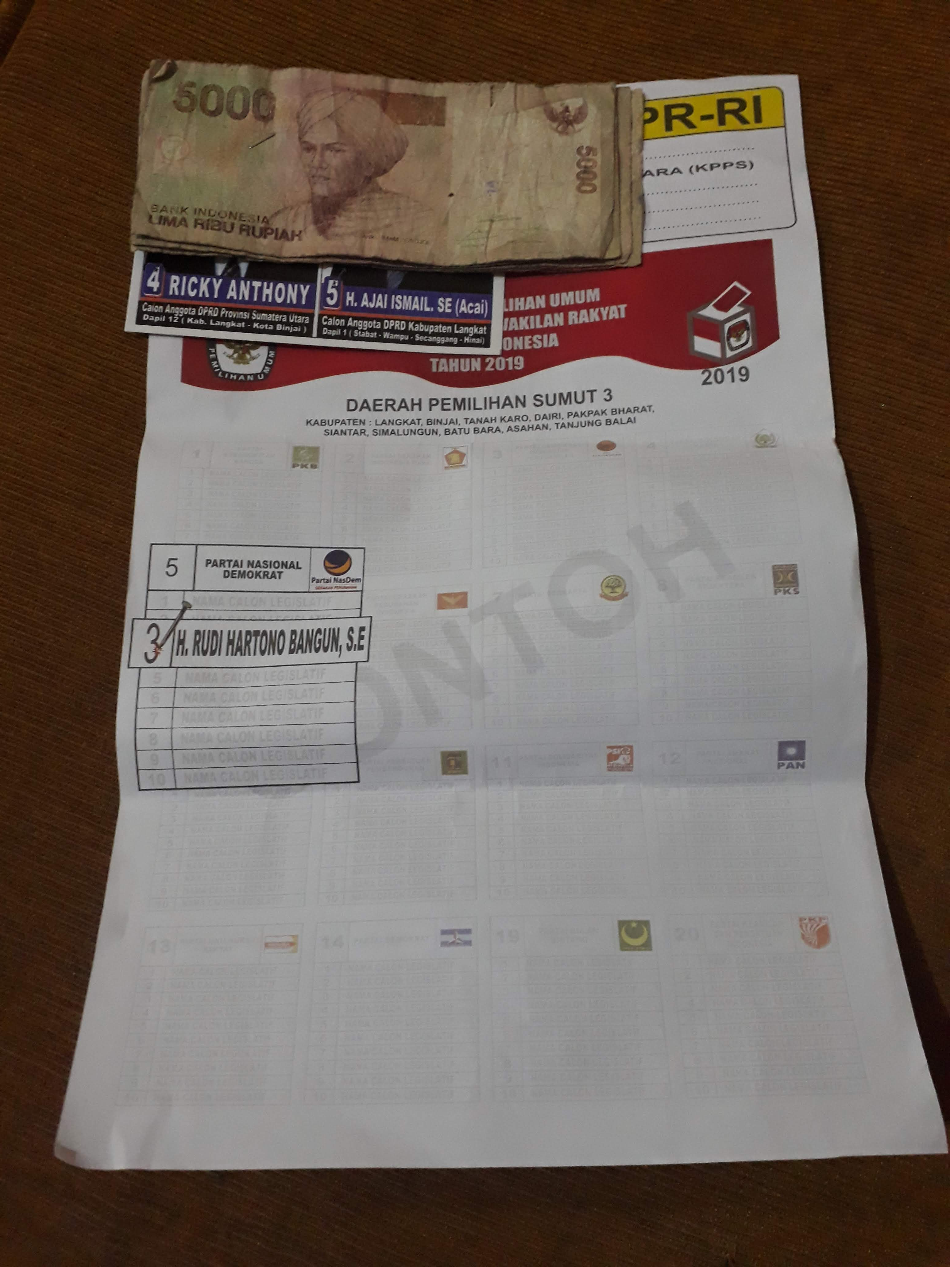 An election leaflet handed out in North Sumatra, Indonesia during the 2019 election campaign. A number of Indonesian rupiah banknotes are stapled to it.